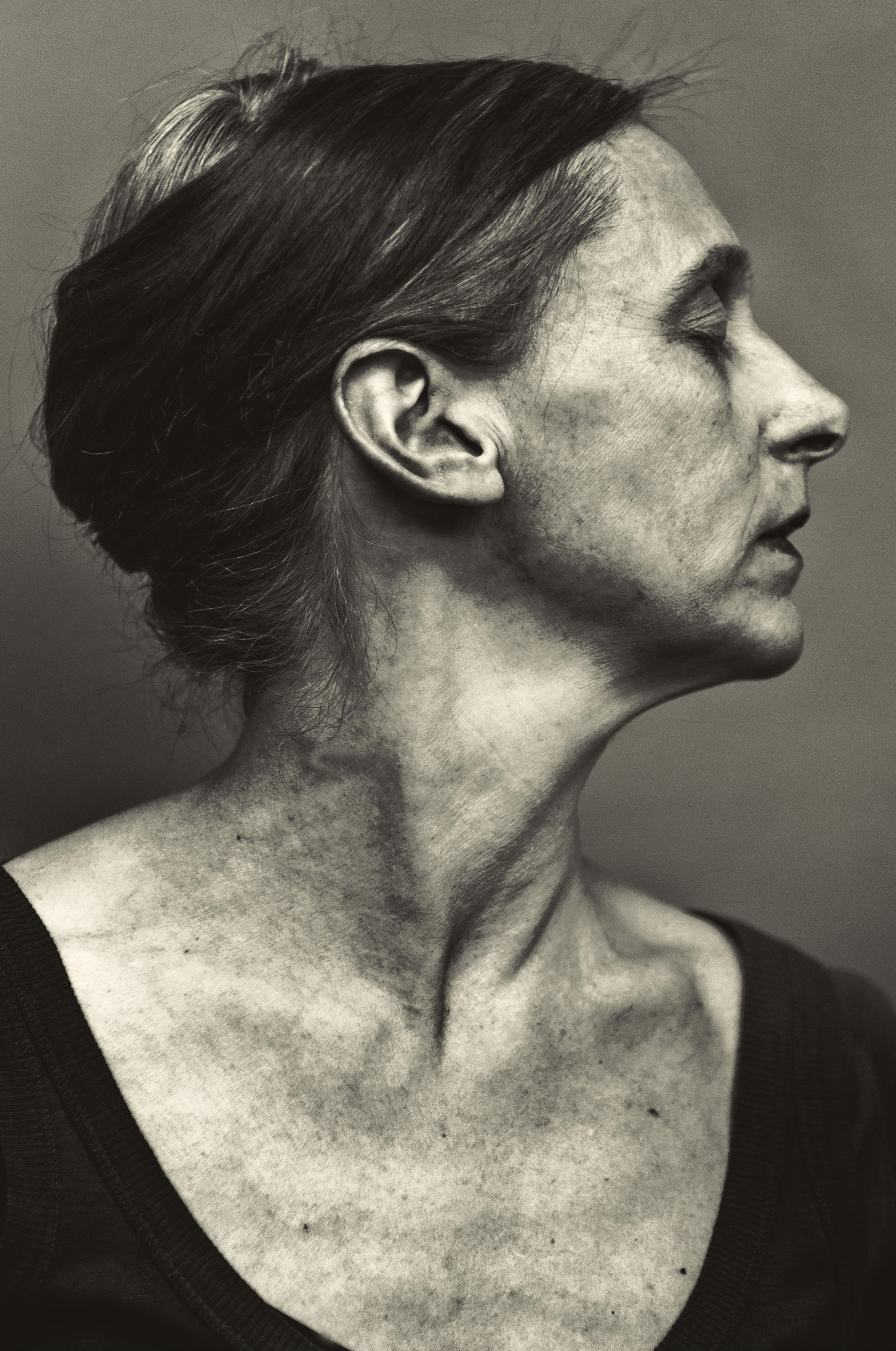 Anne Teresa, Baroness De Keersmaeker prominent Belgium choreographers in contemporary dance.